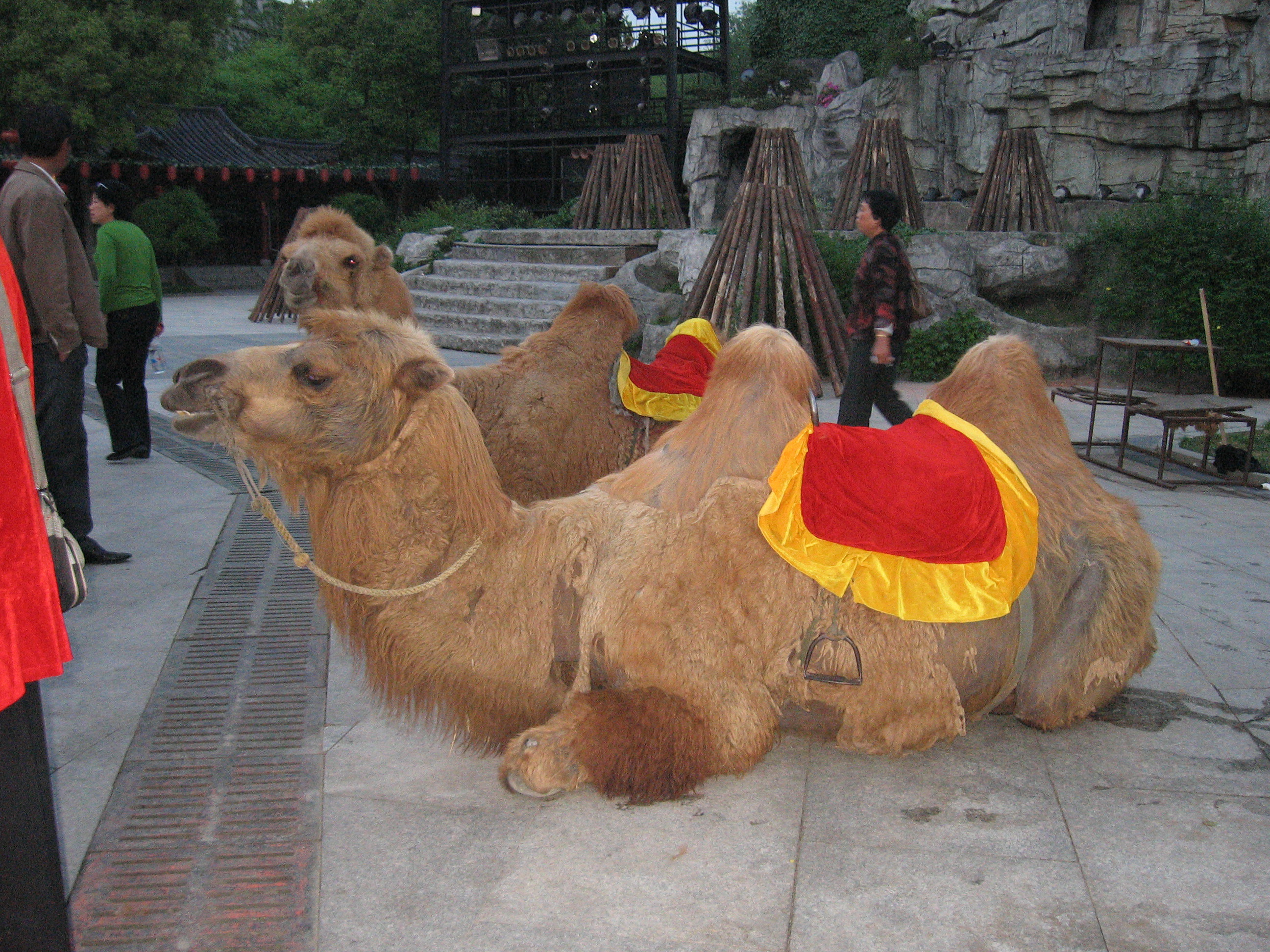 Camels in china